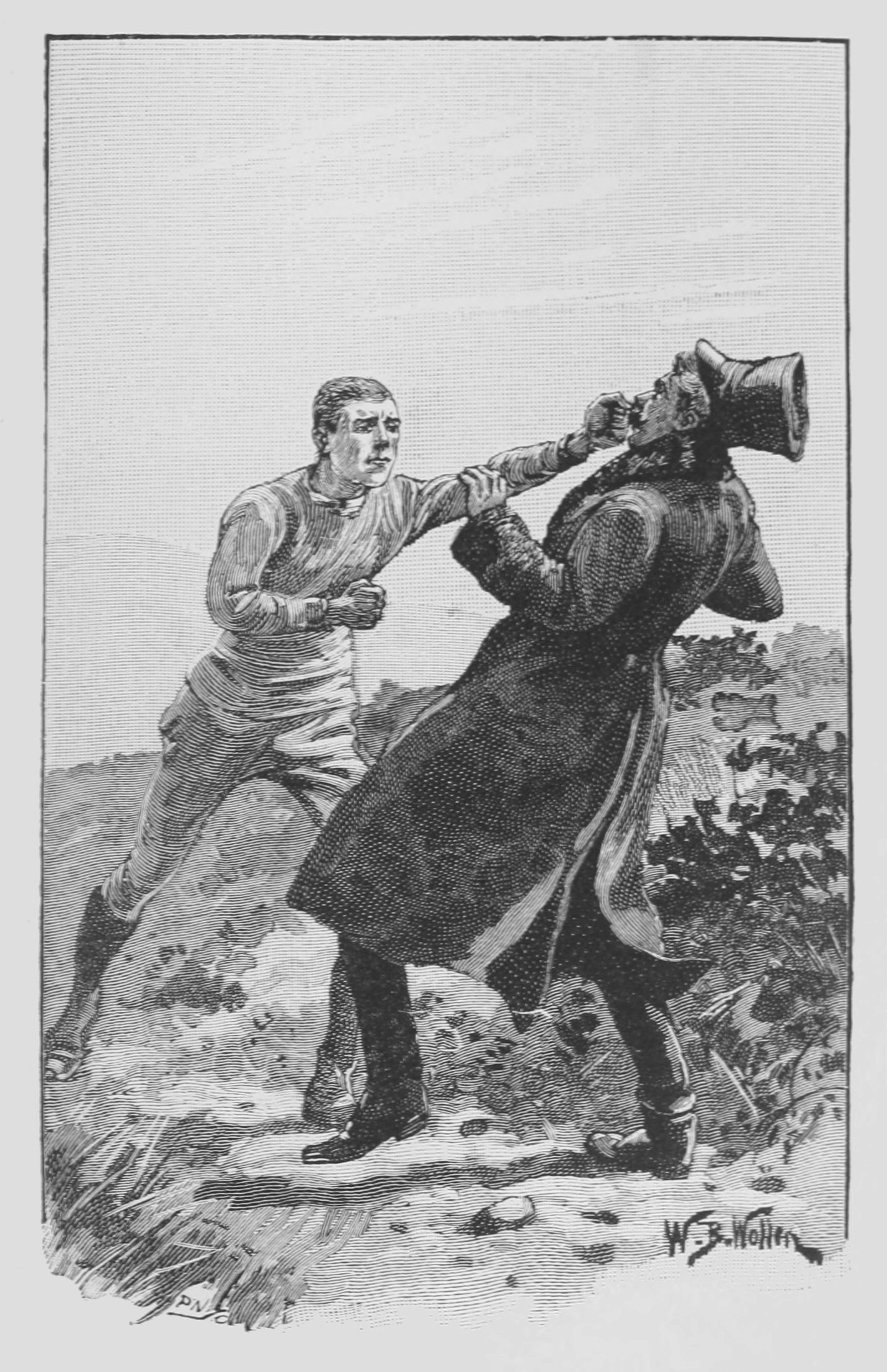 Plate of The Exploits of Brigadier Gerard